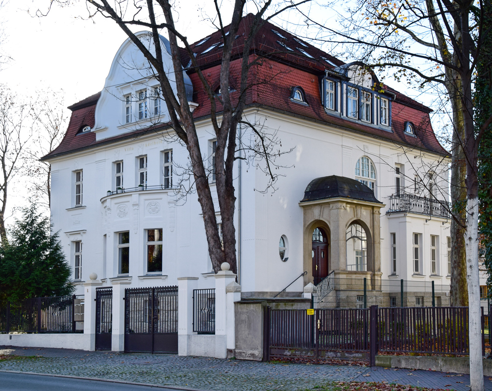 Villa Späthe at Berliner Straße 1 in Gera, Germany; built in 1910 by architect Carl Zaenker